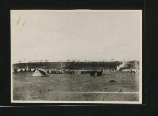 Picture taken of Nairobi in 1899